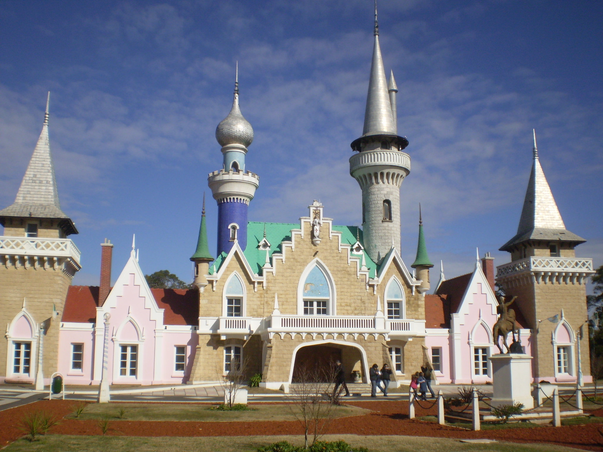 República de los Niños La Plata Argentina - Museo de las Muñecas Here is a Museum that hosts a beautiful collection of dolls from all around the world donated by Cándido (Carlos) Moneo -Sanz, who created the Cinematographic area of the Fine Arts Faculty of La Plata